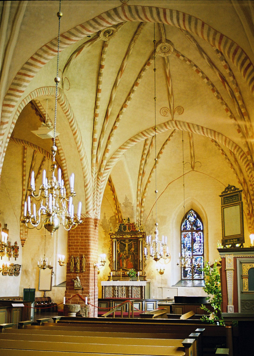 Interior of the medieval church in Hollola, Finland